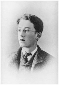 Photograph of Walter George Headlam (1866-1908) Walter George Headlam (1866–1908) Alternative names Headlam, Walter GeorgeDescription classical scholarDate of birth/death 15 February 1866 20 June 1908Authority control : Q15072602 VIAF: 2688565 ISNI: 0000 0000 8076 1248 LCCN: n86141147 NLA: 35182368 Open Library: OL2524823A WorldCat